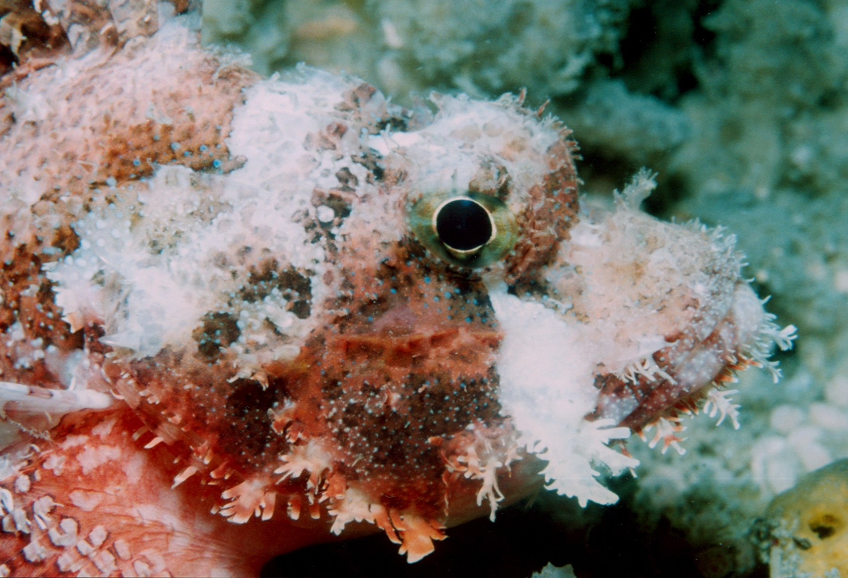 Barchin scorpionfish (Sebastapistes strongia) Image ID: reef0986, NOAA's Coral Kingdom Collection Location: Guam, Mariana Islands